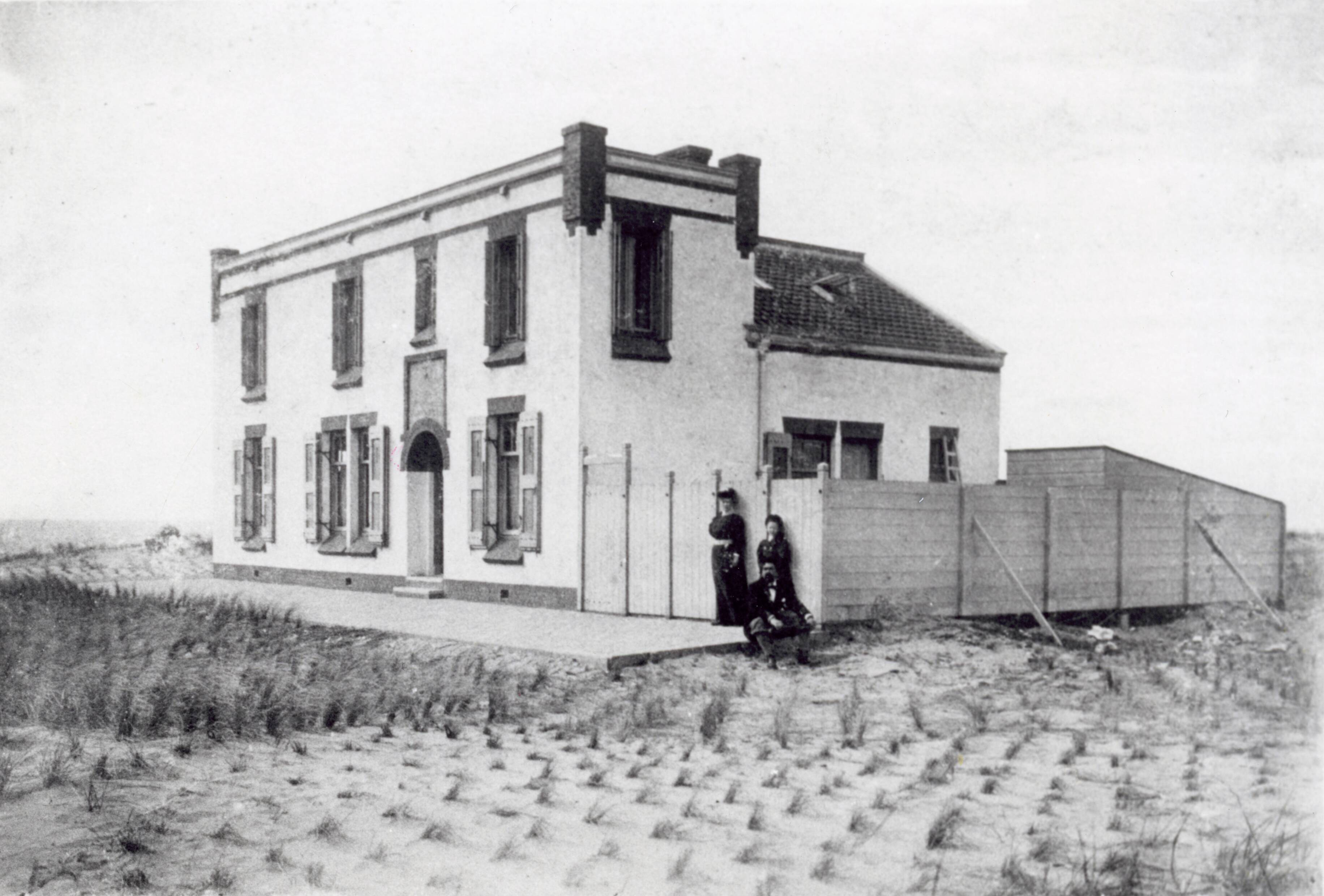 Toorop family in front of their house ("De Schuur"), destroyed in WWII) in Katwijk, The Netherlands (1903). Architect: H.P. Berlage. Current location: around Jan Tooropstraat 2, Katwijk aan Zee.